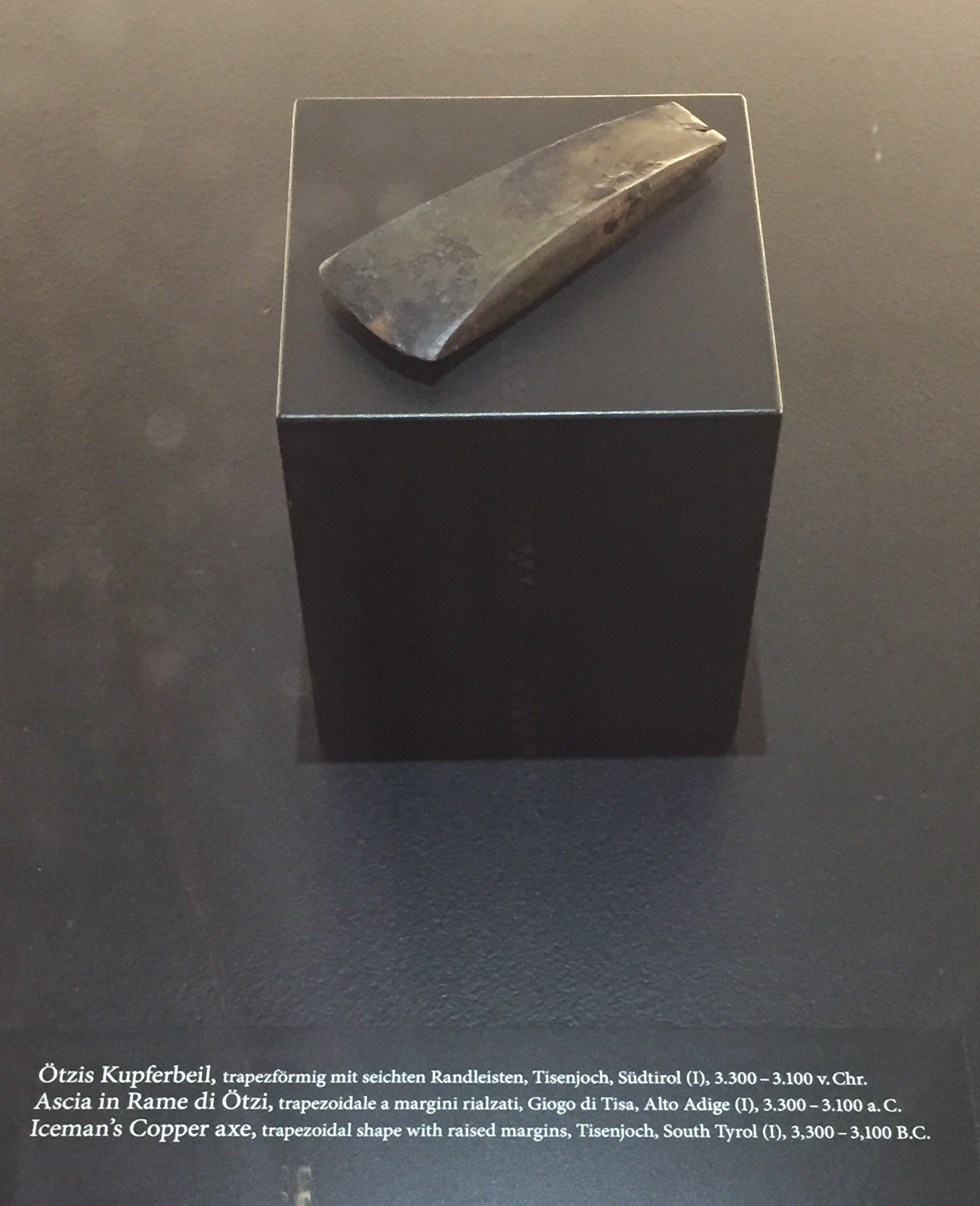 Iceman's Copper Axe from Südtiroler Archäologiemuseum